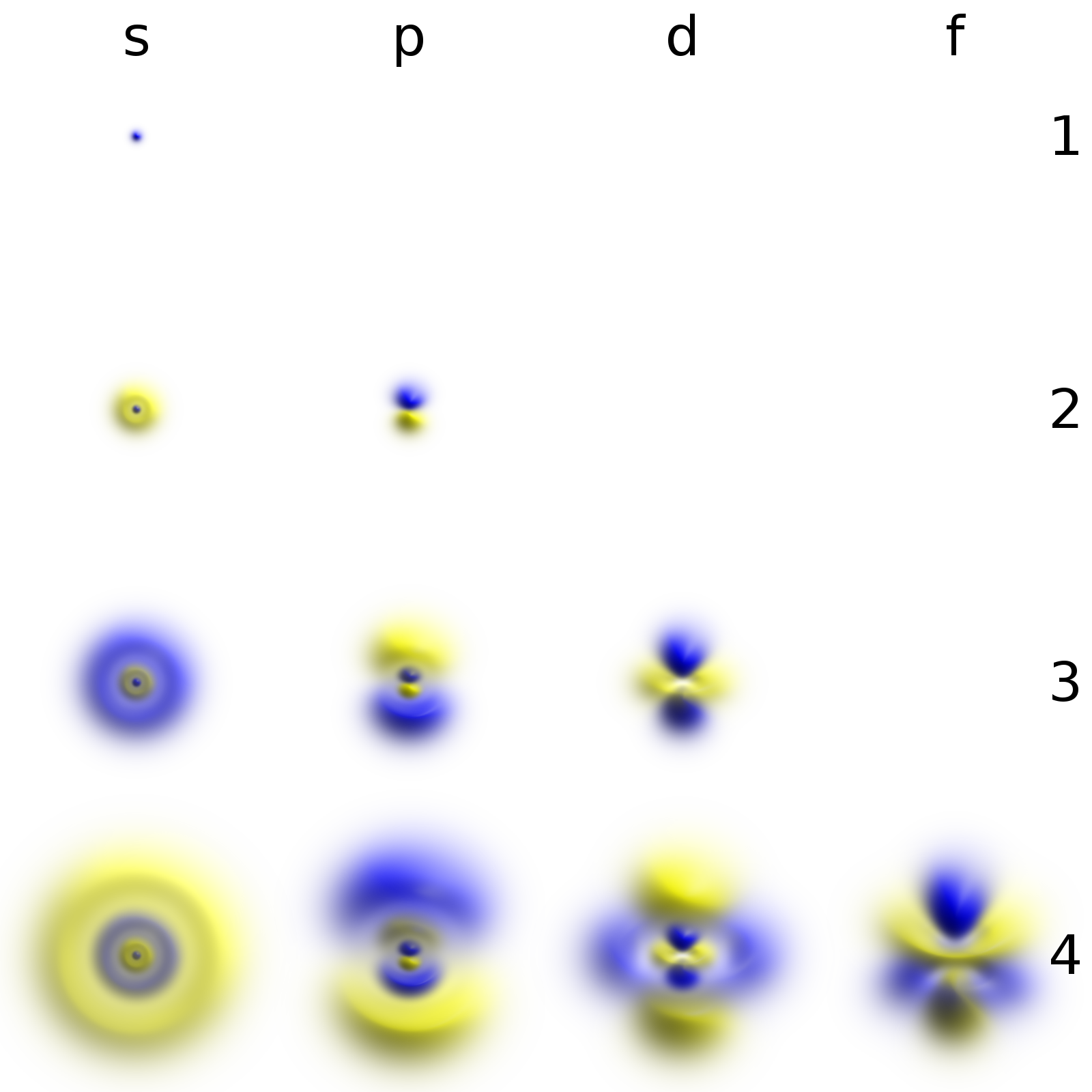 Collection of ten atomic hydrogen-like single-electron orbitals showing 1s, 2s, 2p, 3s, 3p, 3d, 4s, 4p, 4d and 4f orbitals. The angular momentum quantum number l is denoted in each column, using the usual spectroscopic letter code ("s" means l=0; "p": l=1; "d": l=2; "f": l=3). The main quantum number n (=1,2,3,4,...) is marked to the right of each row. All orbitals are aligned along the z-axis and the magnetic quantum number m has been set to 0. The images are 3D renderings of the spatial density distribution of |𝜓|² with the color depicting the phase of 𝜓. The spatial distribution is smooth and vanishes for large radii. The cloud is a more realistic representation of an orbital than the more common solid-body approximations.